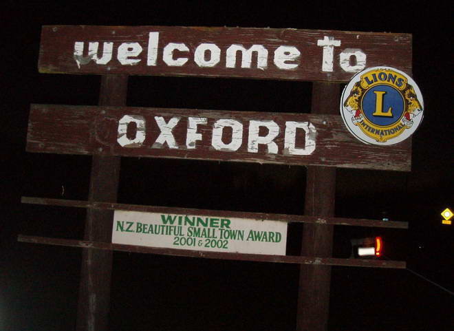 Picture of Oxford, NZ welcome sign